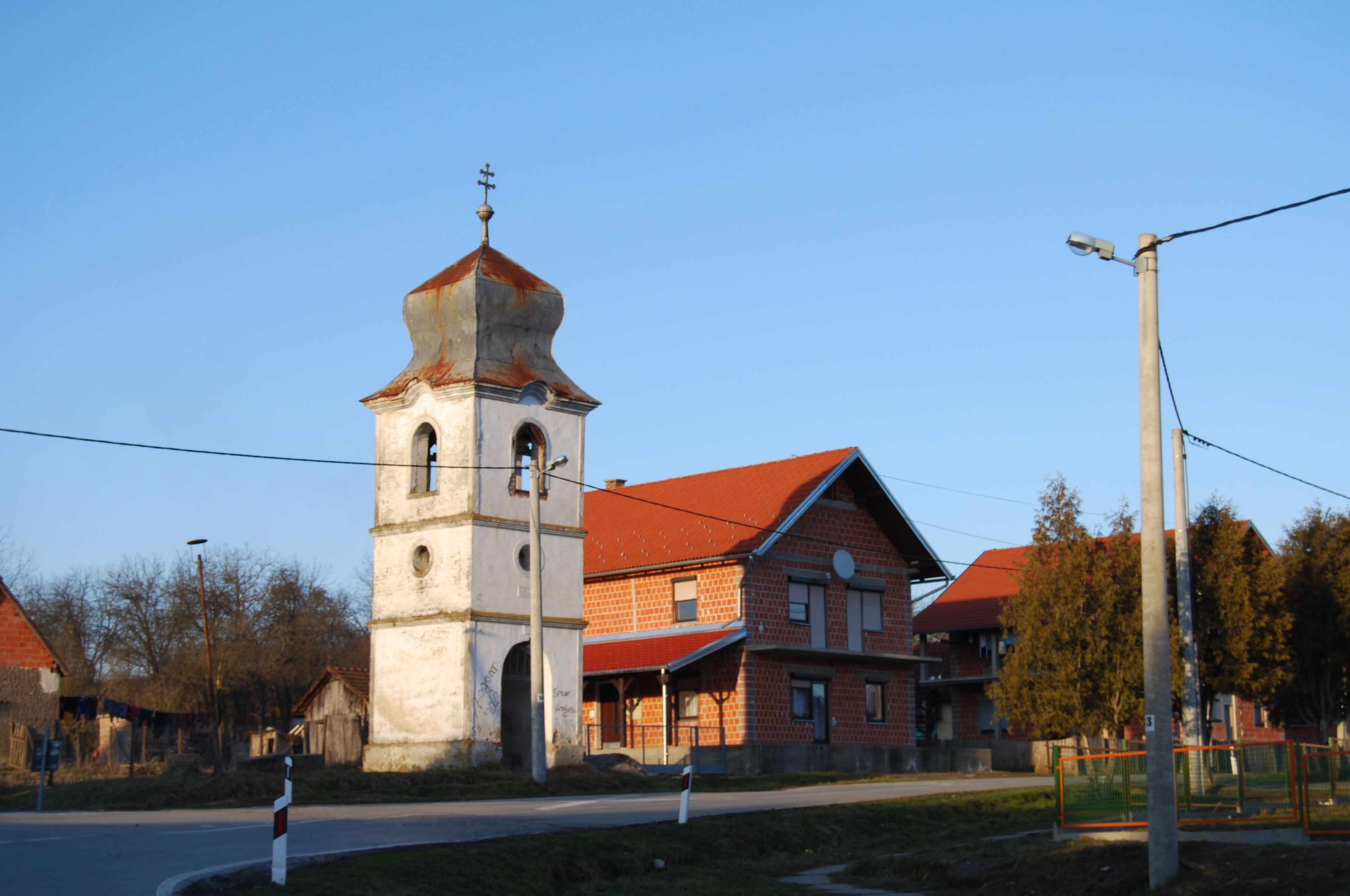 Street with chapel (?) in Čeralije village, Croatia